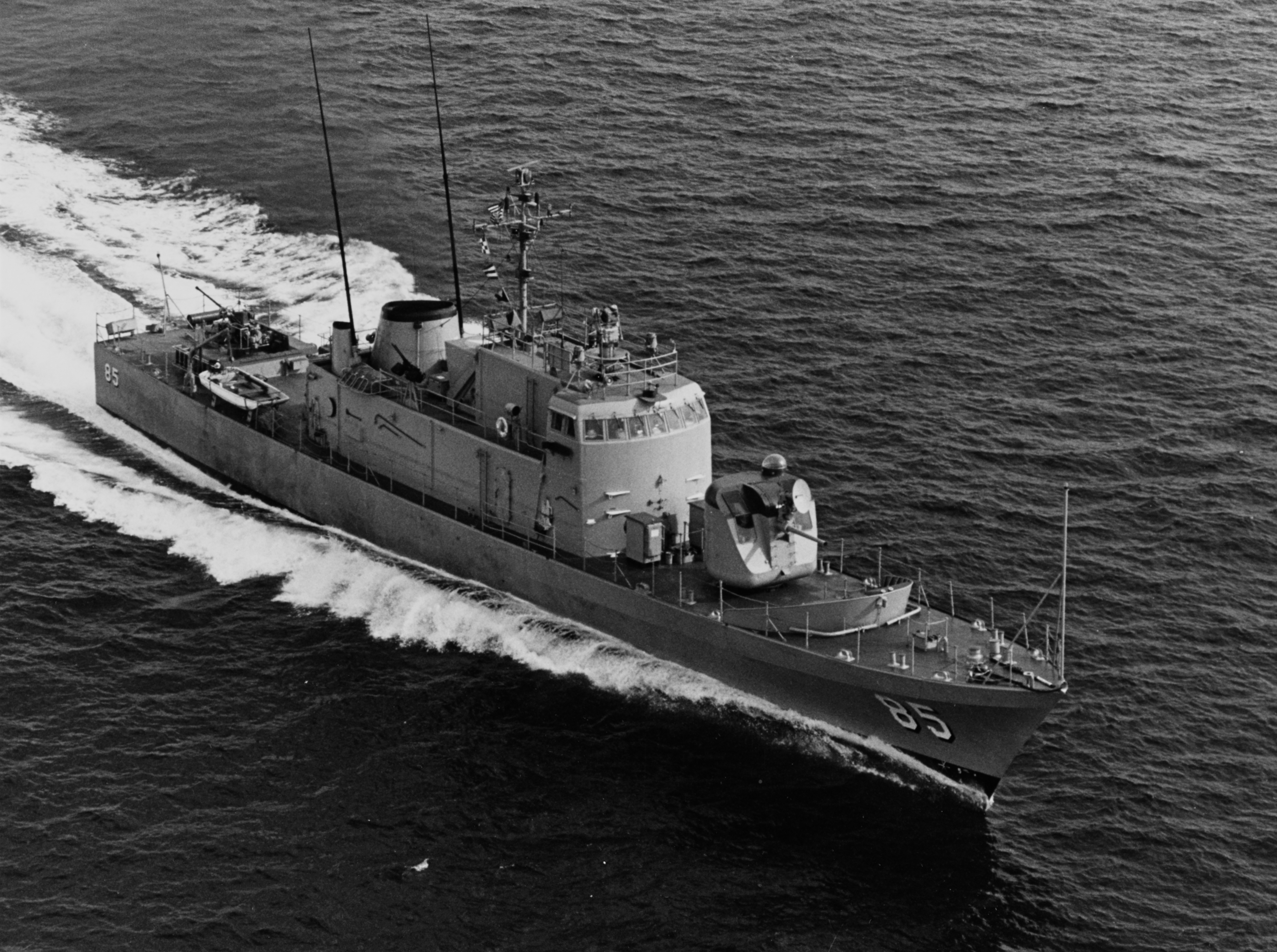 The U.S. Navy patrol gunboat USS Gallup (PG-85) operating in the South China Sea during a Market Time patrol along the coast of South Vietnam in June 1967.